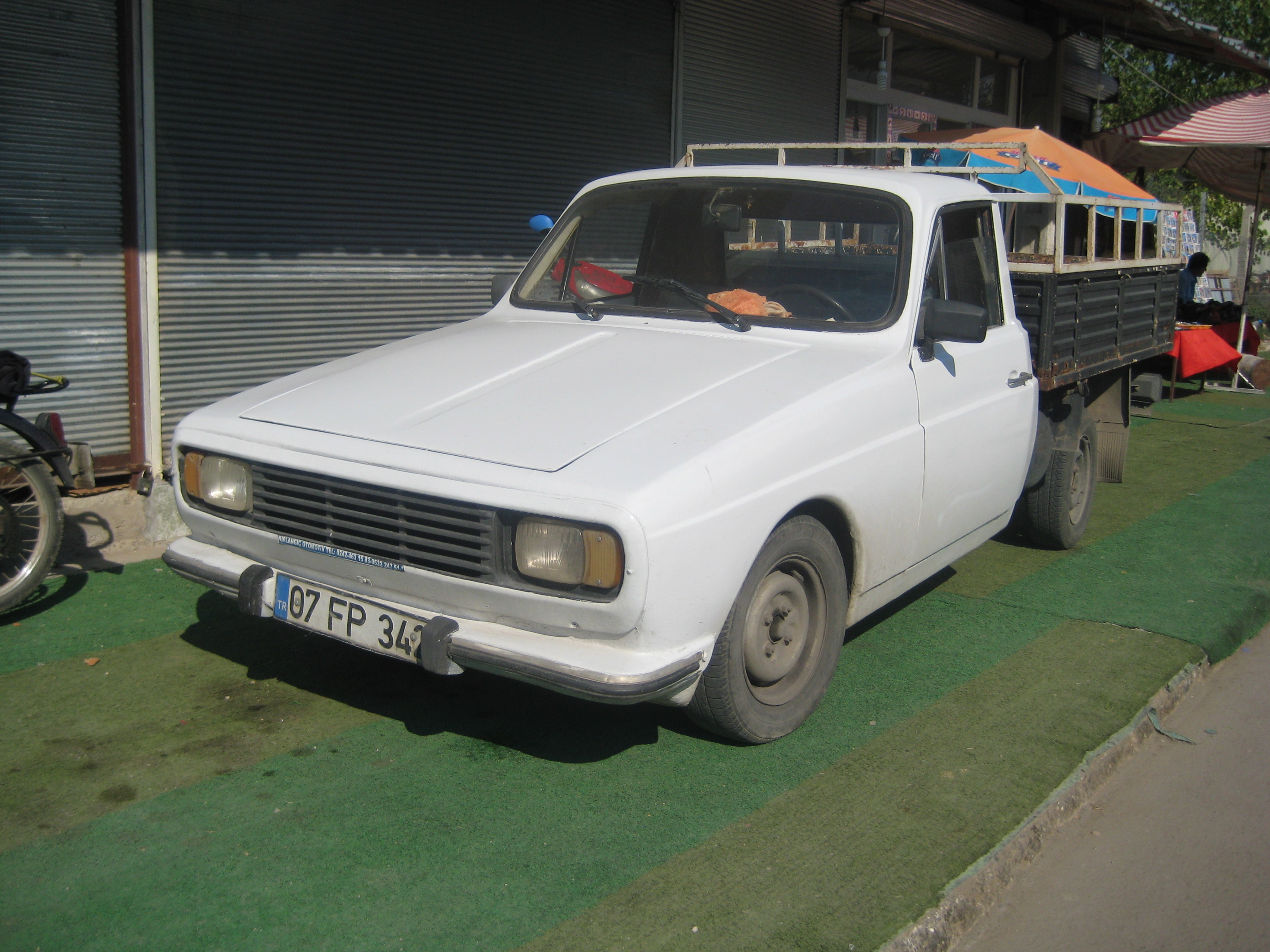 Anadol pickup (P2 500)